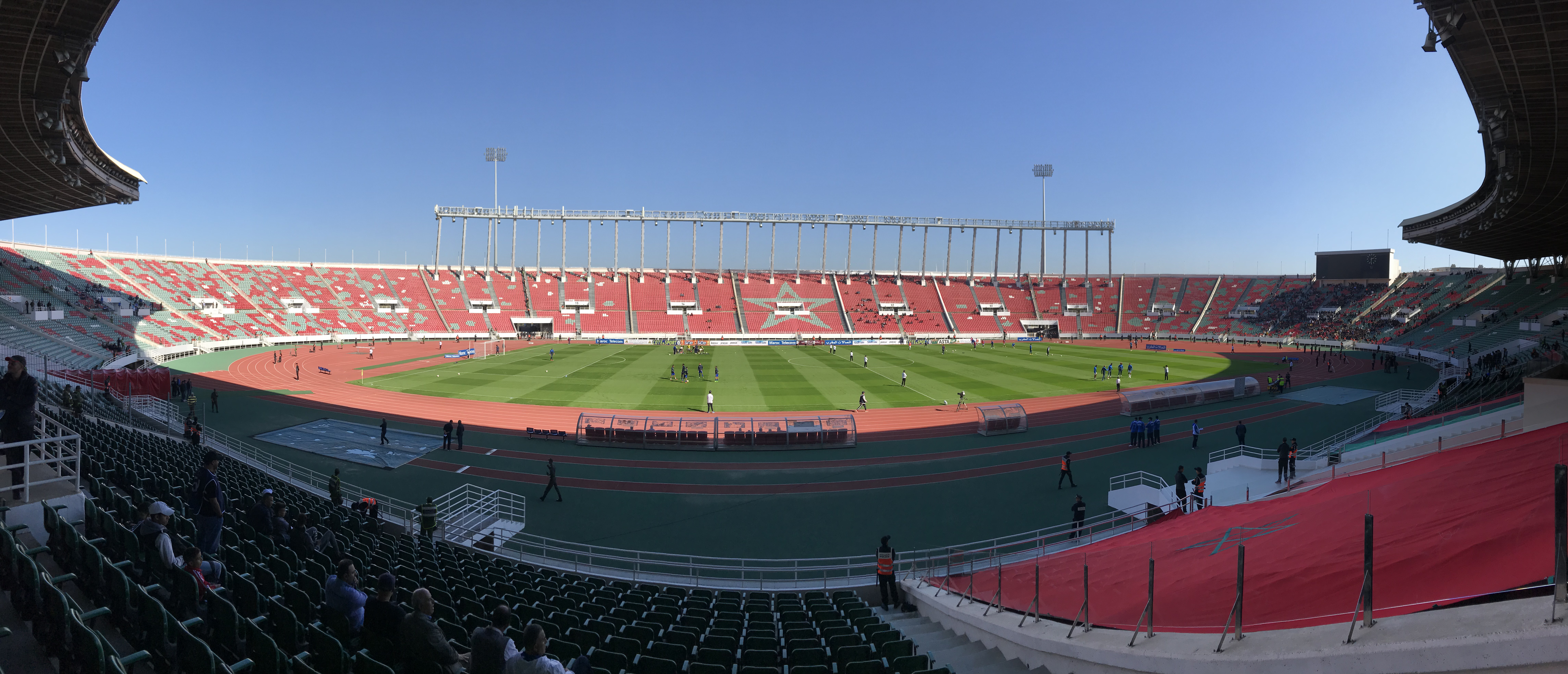 Stade Prince Moulay Abdellah, Rabat, Morocco - Botola Pro 2018: FAR Rabat - Ittihad Tanger (0-0)